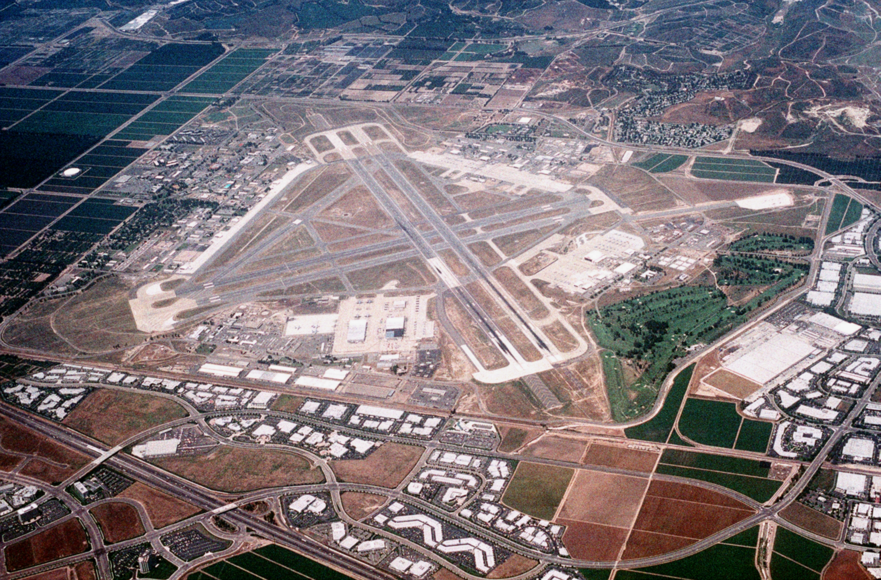 An aerial view of the U.S. Marine Corps Air Station El Toro, California (USA), looking east, in 1993.